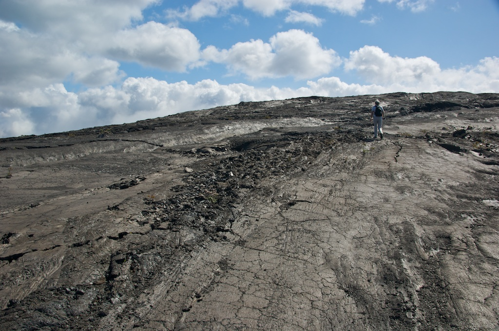 Mauna Ulu northern face.